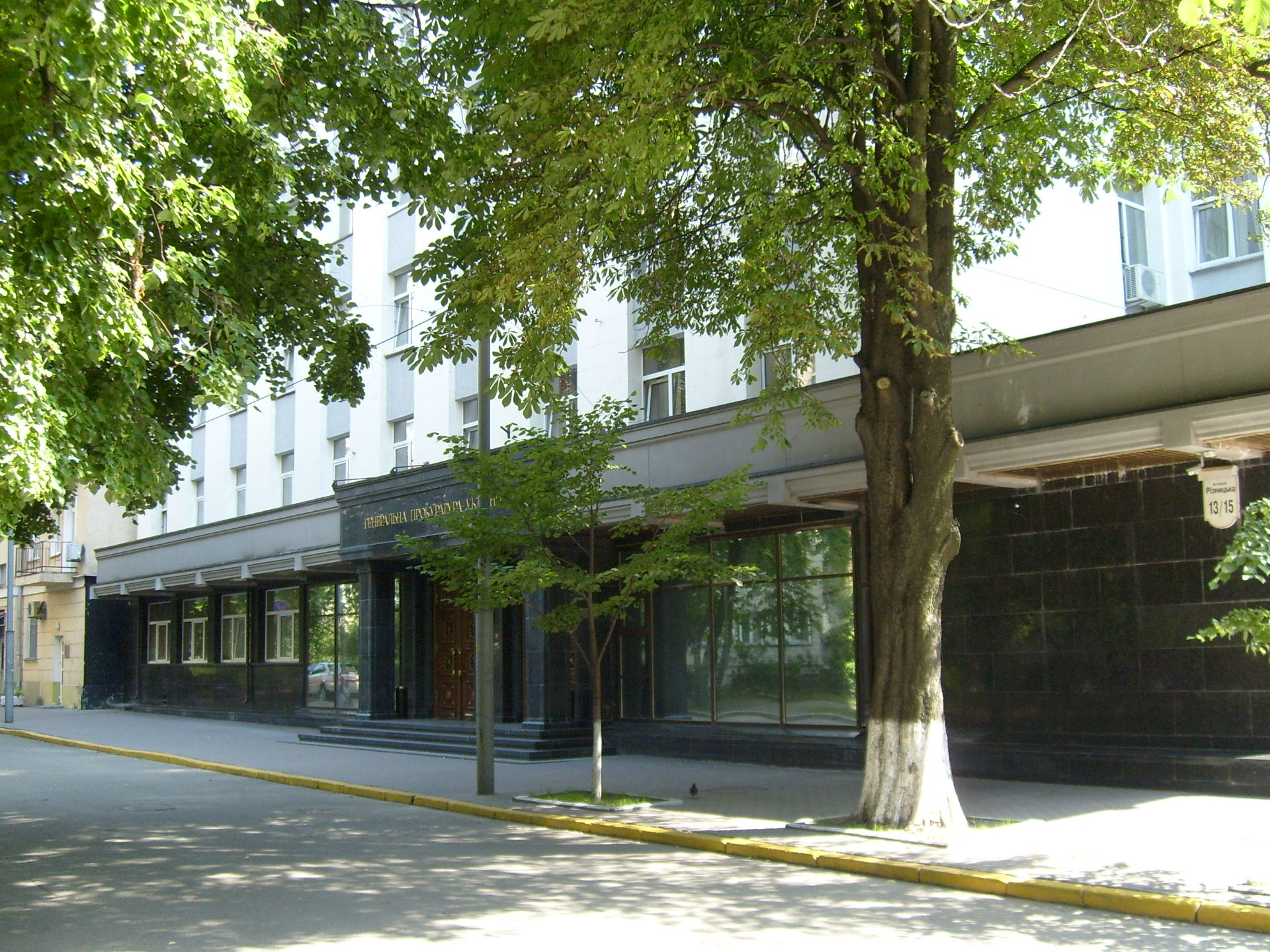 Prosecutor General's Office of Ukraine. Address: Kiev, 13/15 Riznytska St.